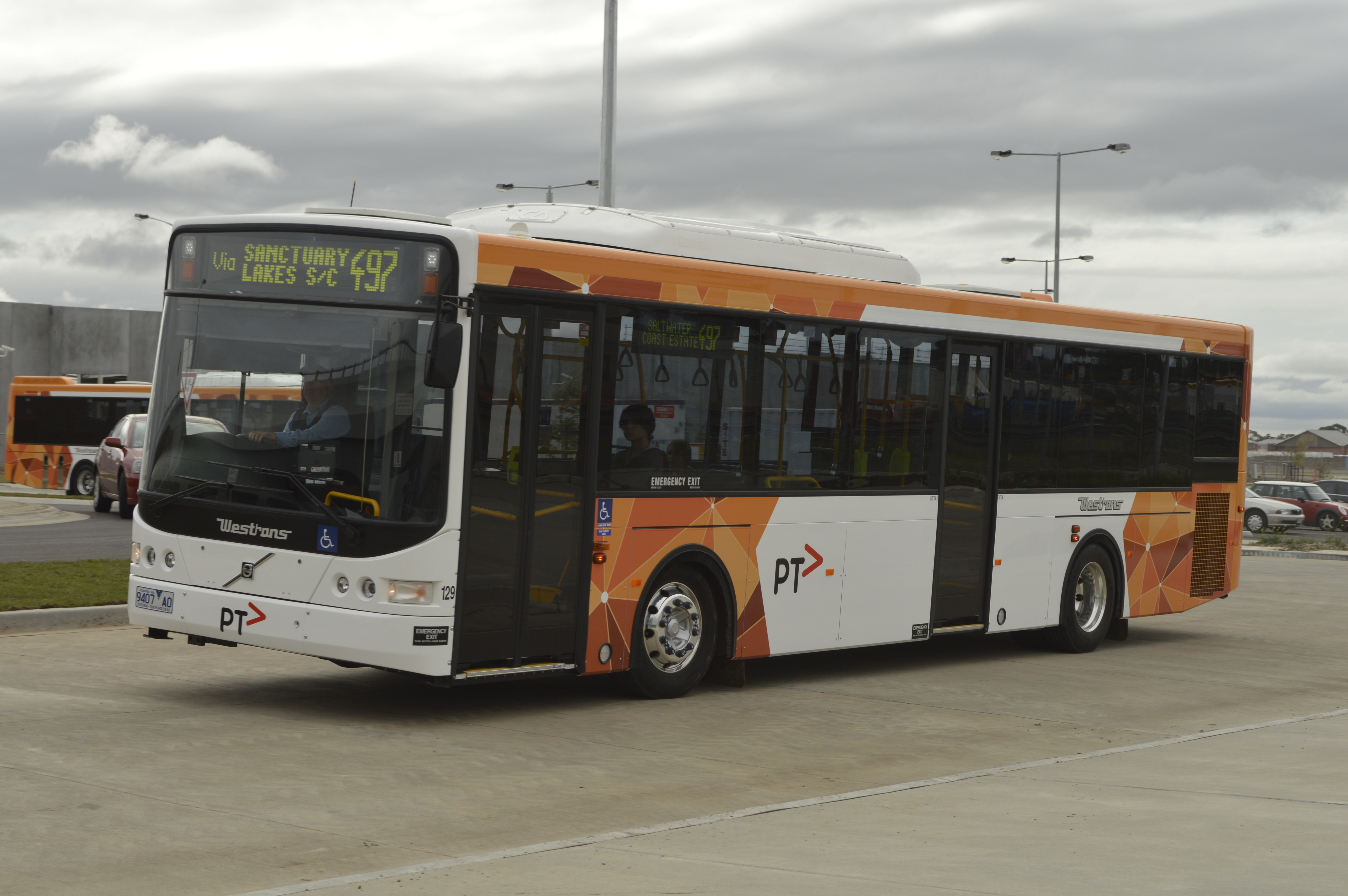 A Westrans Volvo B7RLE (Volgren 'CR228L') in the then new PTV livery arrives at Williams Landing.